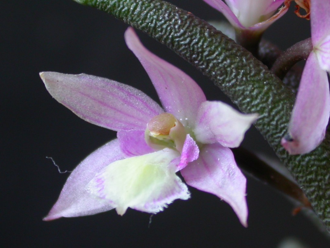 Leptotes harryphillipsii